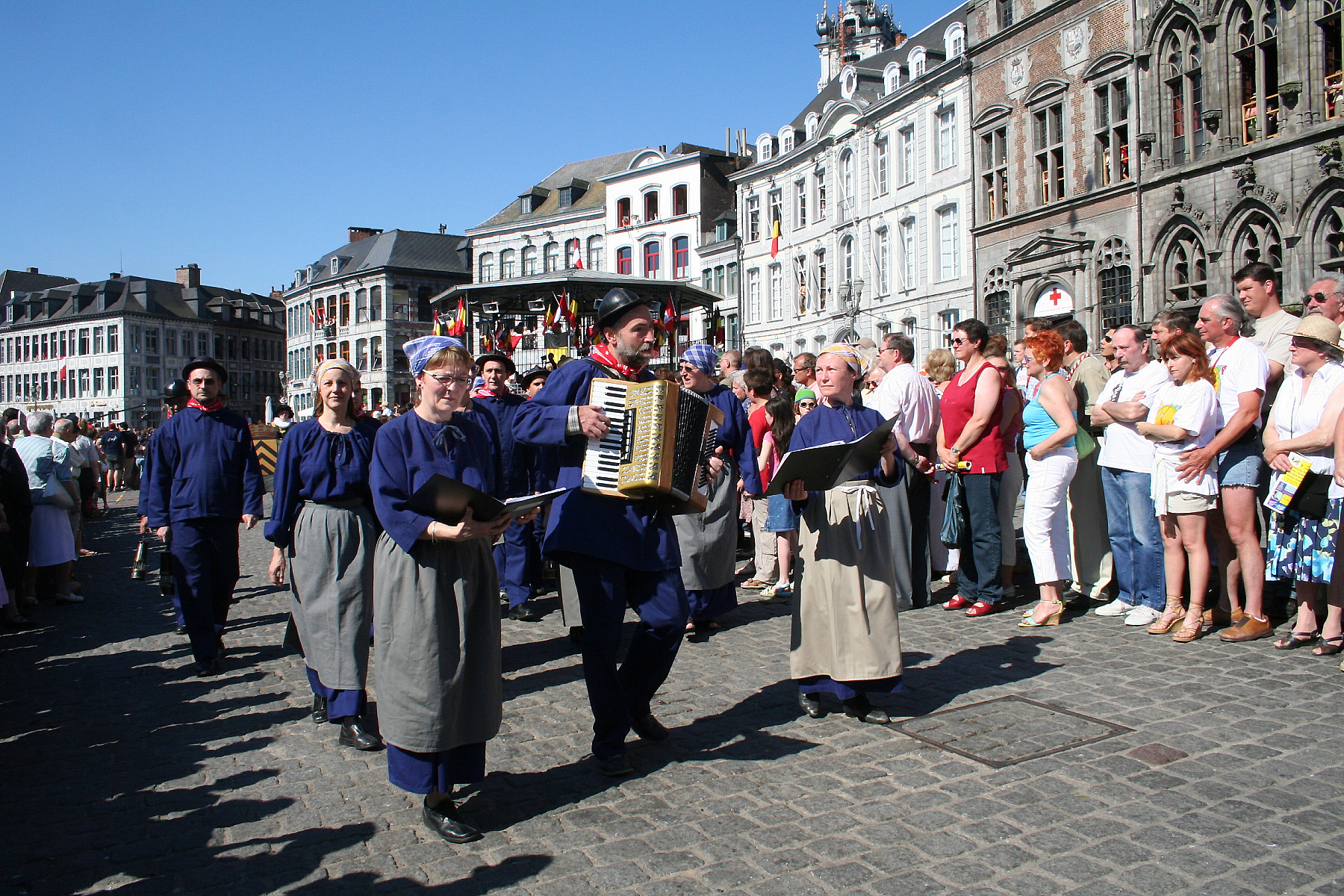 Mons (Belgium), the Coalminers fellow members during the procession of the Golden Car.